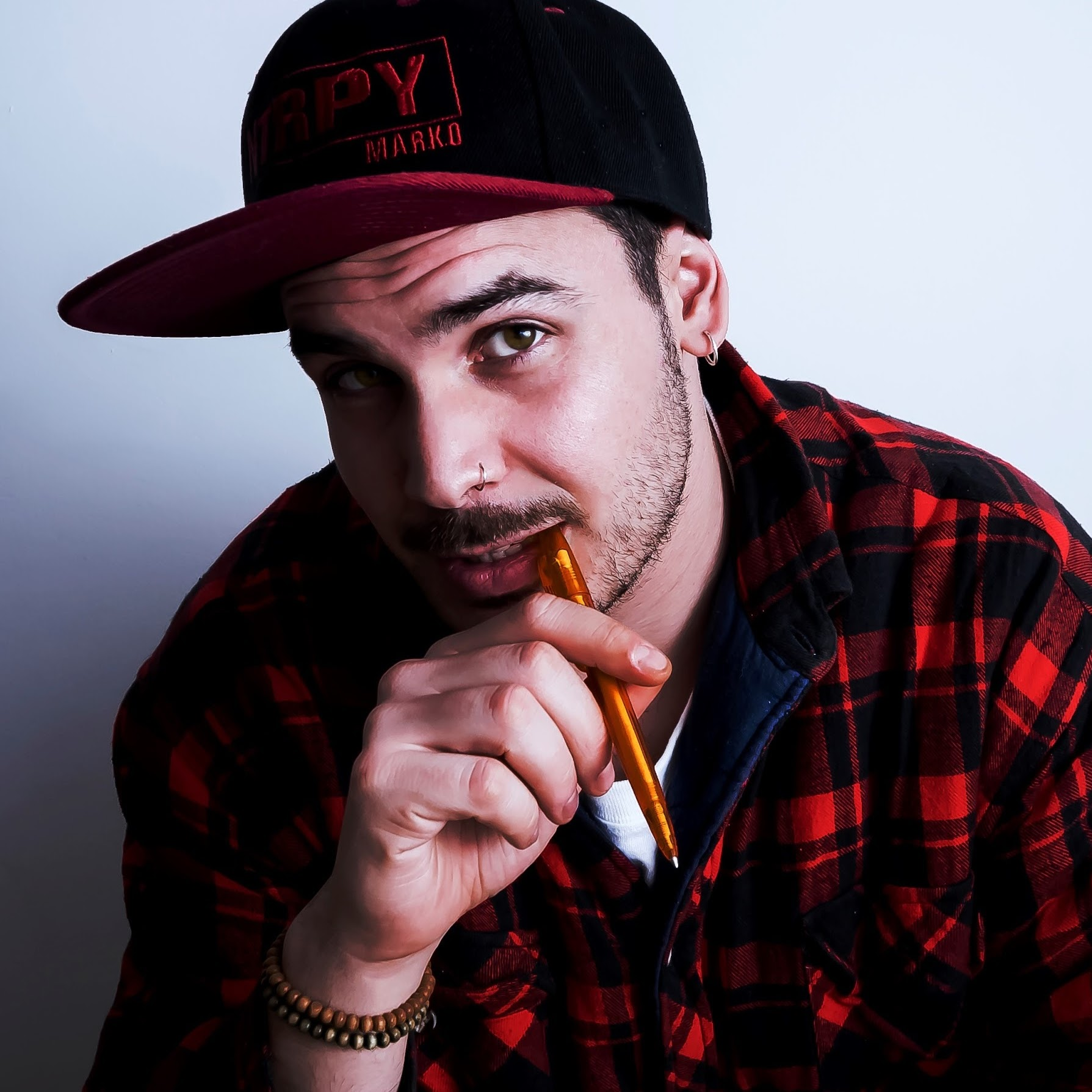 Montana in Berlin, 2016